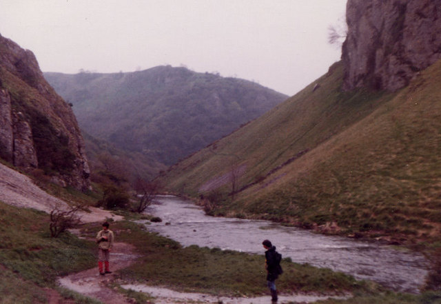 Dovedale